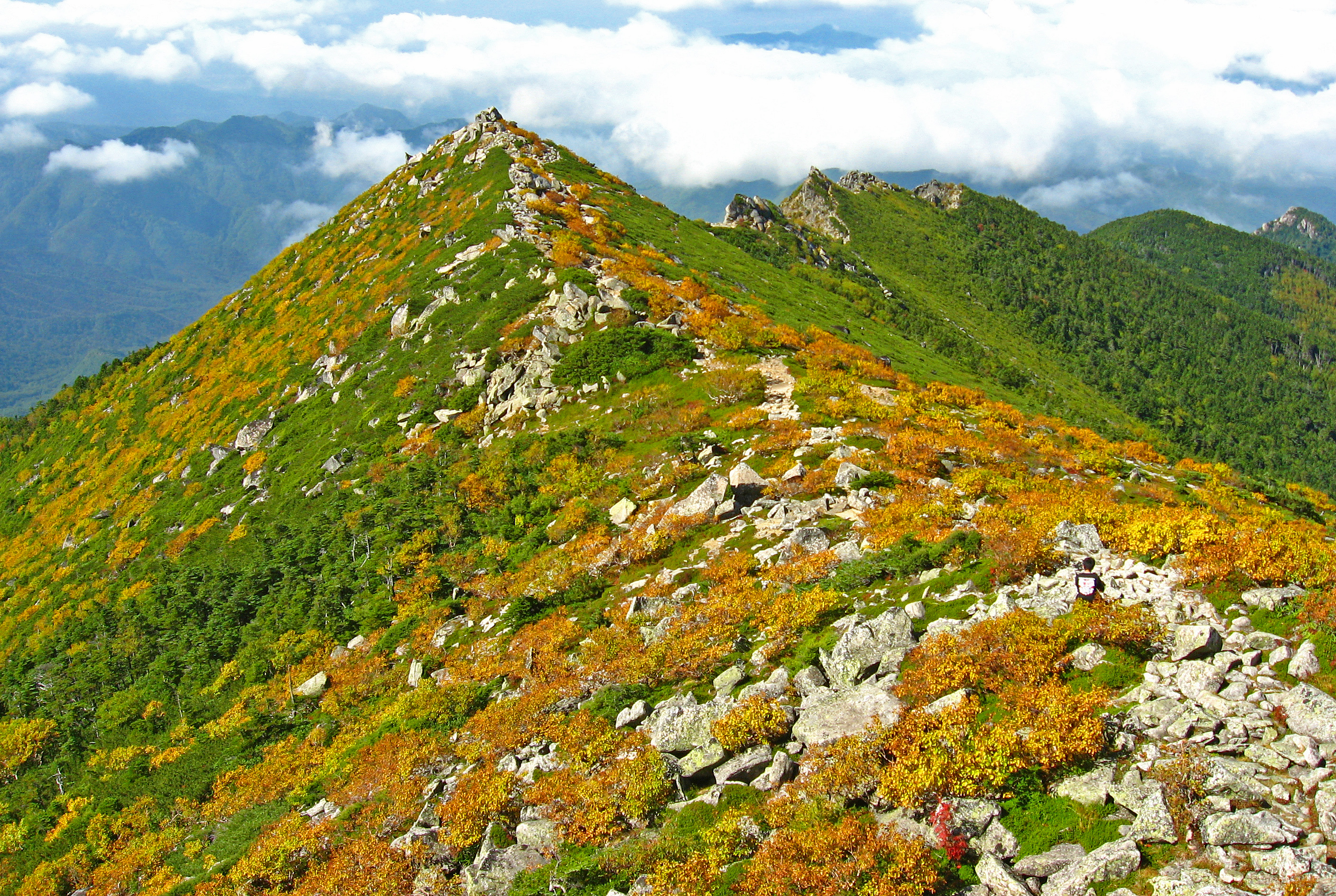 The west ridge of Mount Kimpu, Okuchichibu Mountains, Honshu, Japan. The trees turned yellow are Betula ermanii.